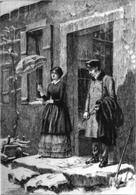 Illustration of Madame Bovary by Gustave Flaubert (1821-1880)